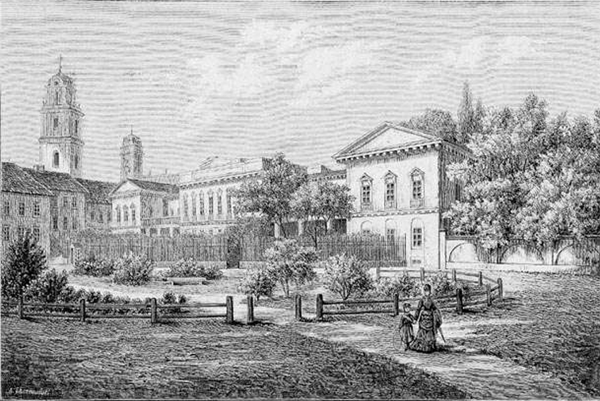 Former Palace of Bishop of Vilnius Ignotas Masalskis, currently Presidential Palace